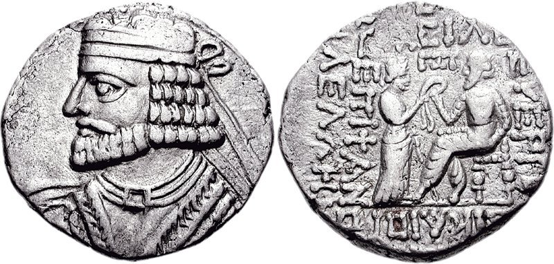 Coin of Vologases I, minted at Seleucia in 51/2.